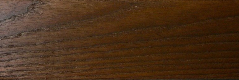 Surface of Ash Thermowood